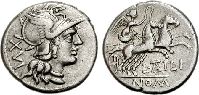 Rome (republic); L. Atilius Nomentanus. 141 BC. AR Denarius (3.86 g, 11h). Rome mint. Helmeted head of Roma right; XVI behind Victory driving biga right. N.B. The first denarius which omits the name of Rome.